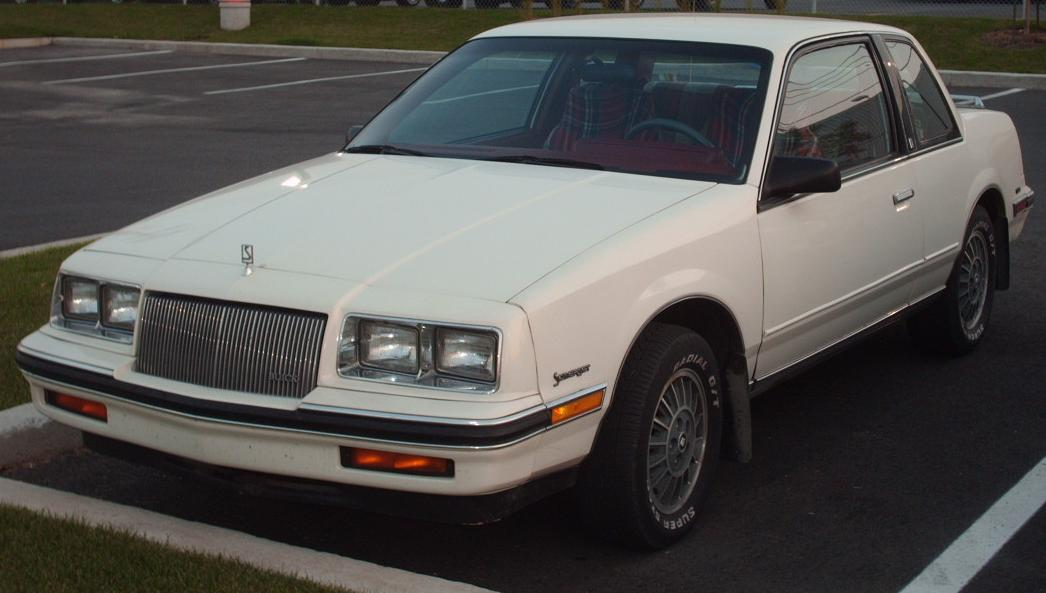 1985-1987 Buick Somerset photographed in Montreal, Quebec, Canada.